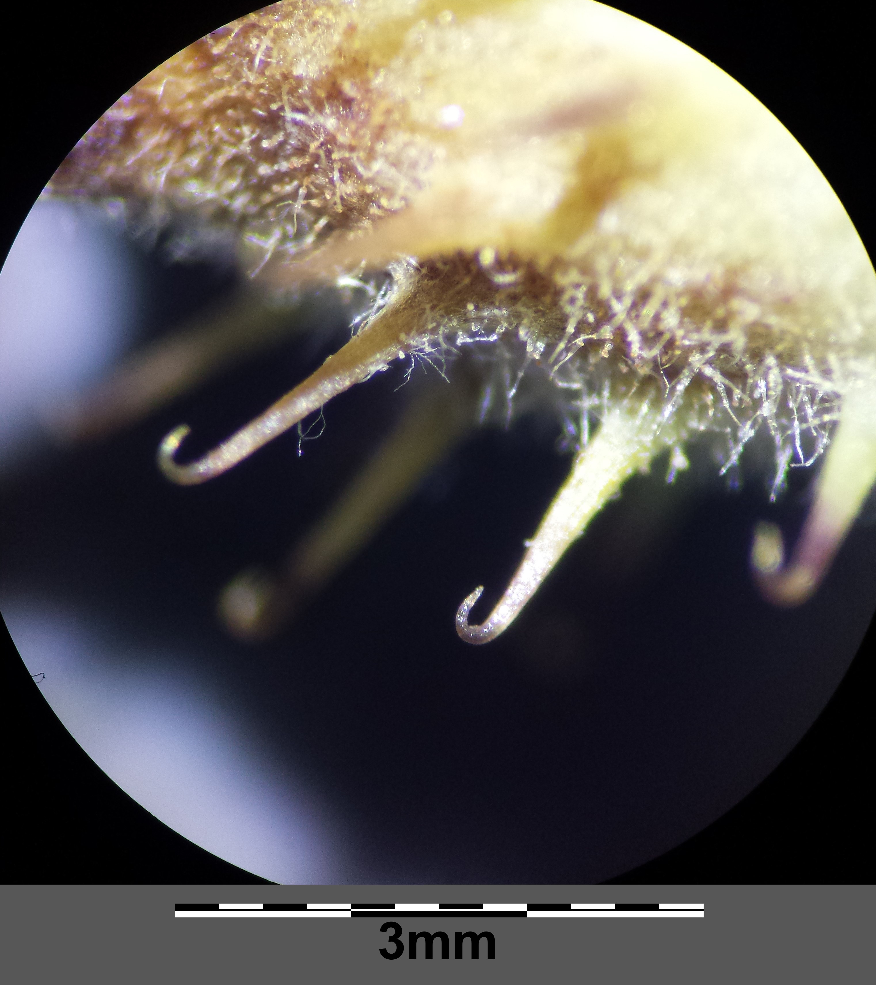 Fruit capitula with hooked spines and flexible hairs in between (detail) Taxonym: Xanthium strumarium s. str. ss Fischer et al. EfÖLS 2008 ISBN 978-3-85474-187-9 Location: Darscho near Apetlon, district Neusiedl am See, Burgenland, Austria - ca. 120 m a.s.l. Habitat: shore of a small salt lake